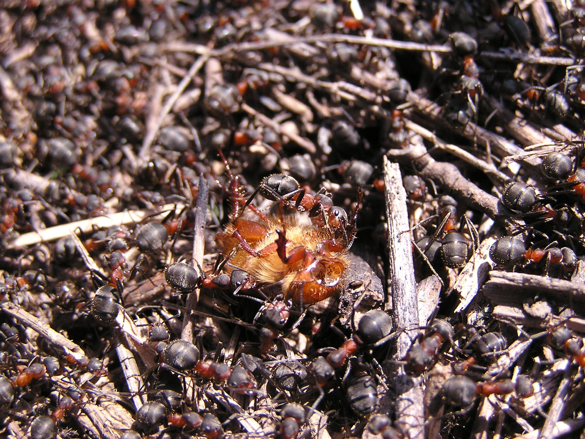 Insect